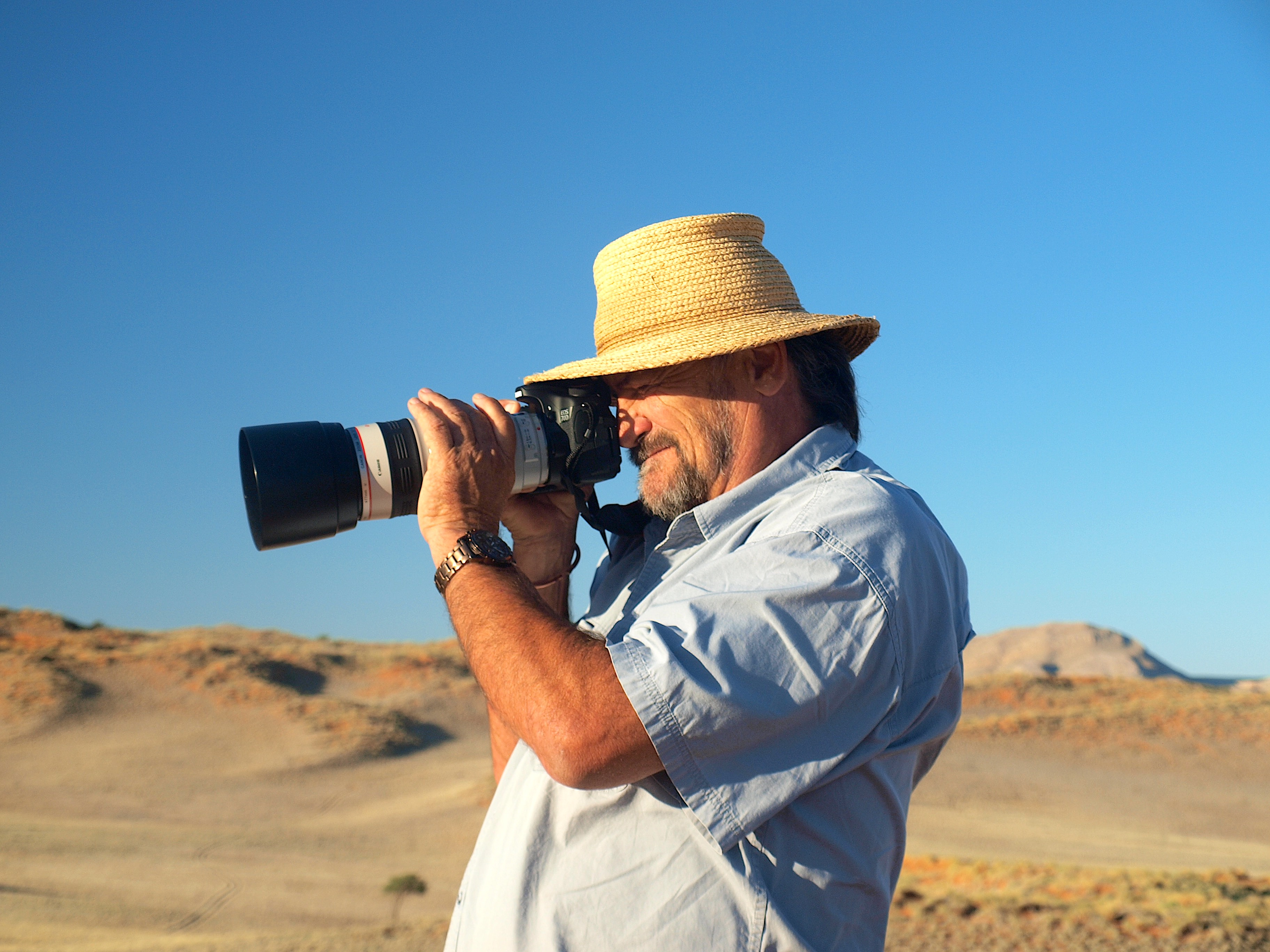 Fotograf mit Teleobjektiv